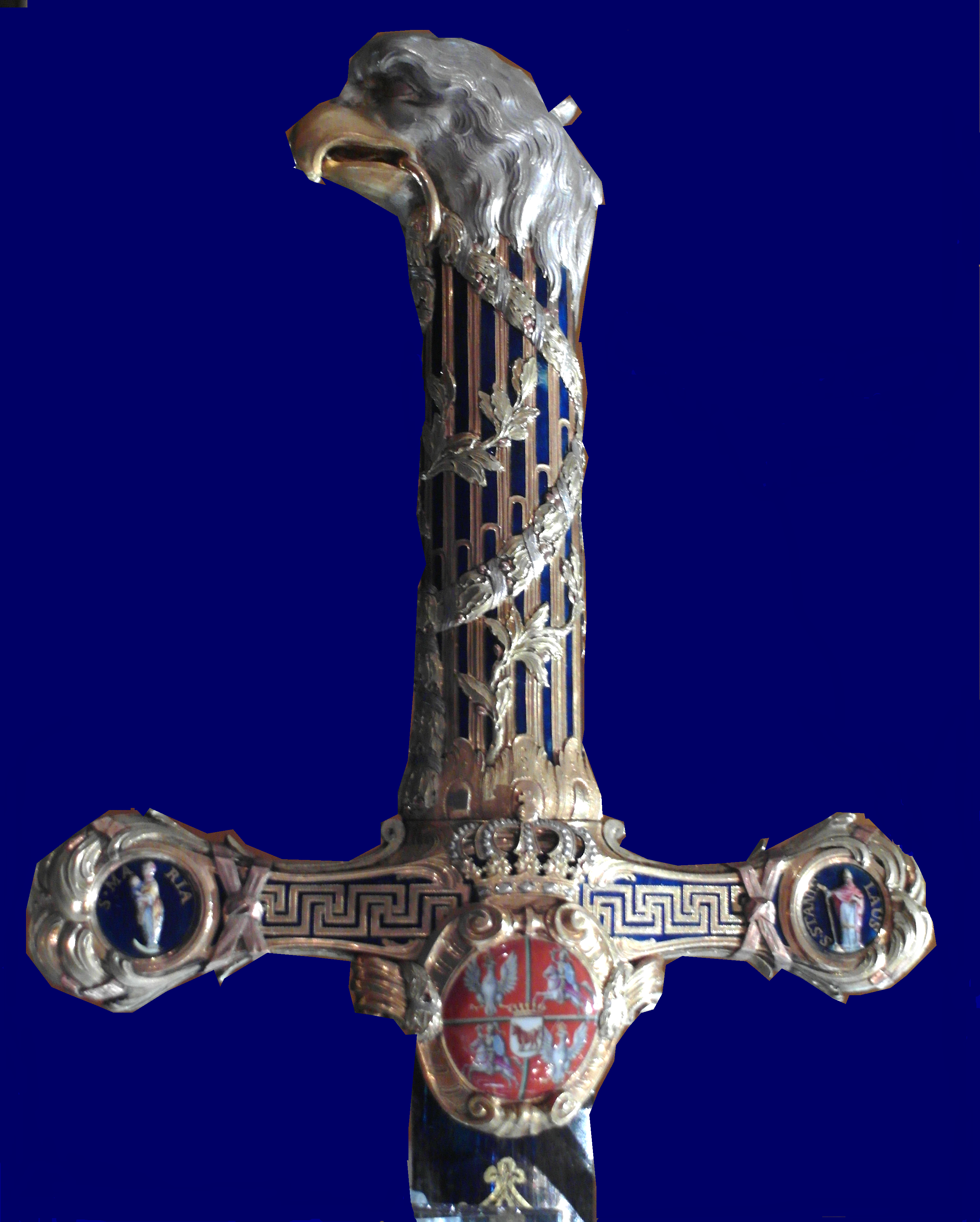 Handle of the Ceremonial sword of Stanisław Augustus Poniatowski